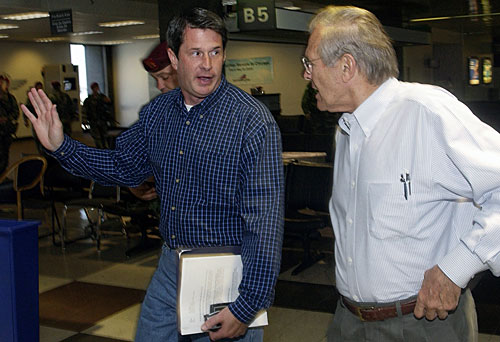 Louisiana Senator David Vitter, left, discusses Hurricane Katrina relief efforts with Defense Secretary Donald H. Rumsfeld as they walk through the airport in New Orleans, La., Sept, 4, 2005. Defense Dept. photo by U.S. Air Force Tech. Sgt. Kevin J. Gruenwald